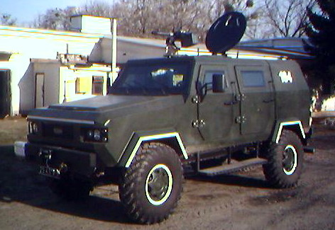 SRM-1 Cossac armoured car, Kiev, 2010.